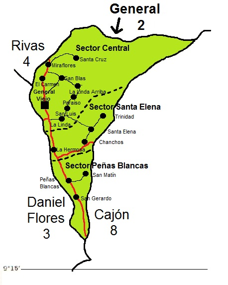 El General´s map